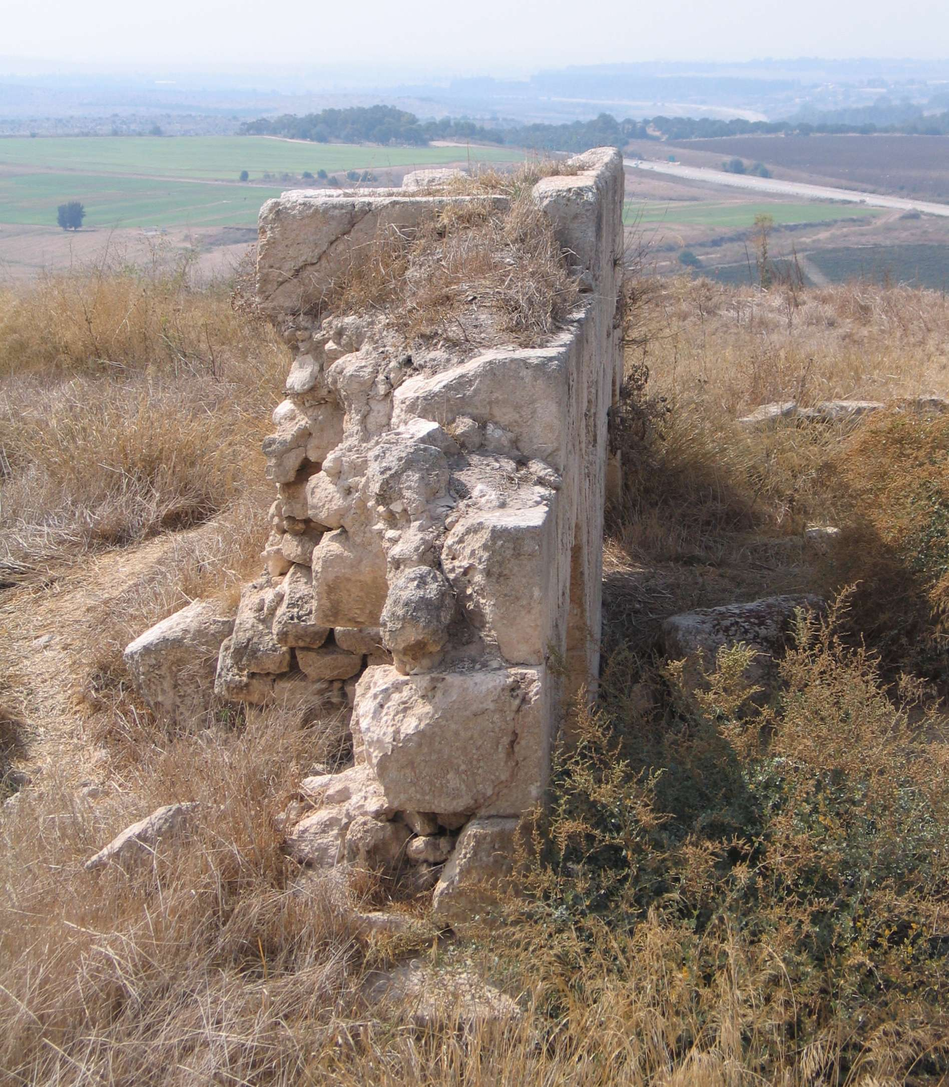 Ruins of the crusader castle at Latrun, Israel.